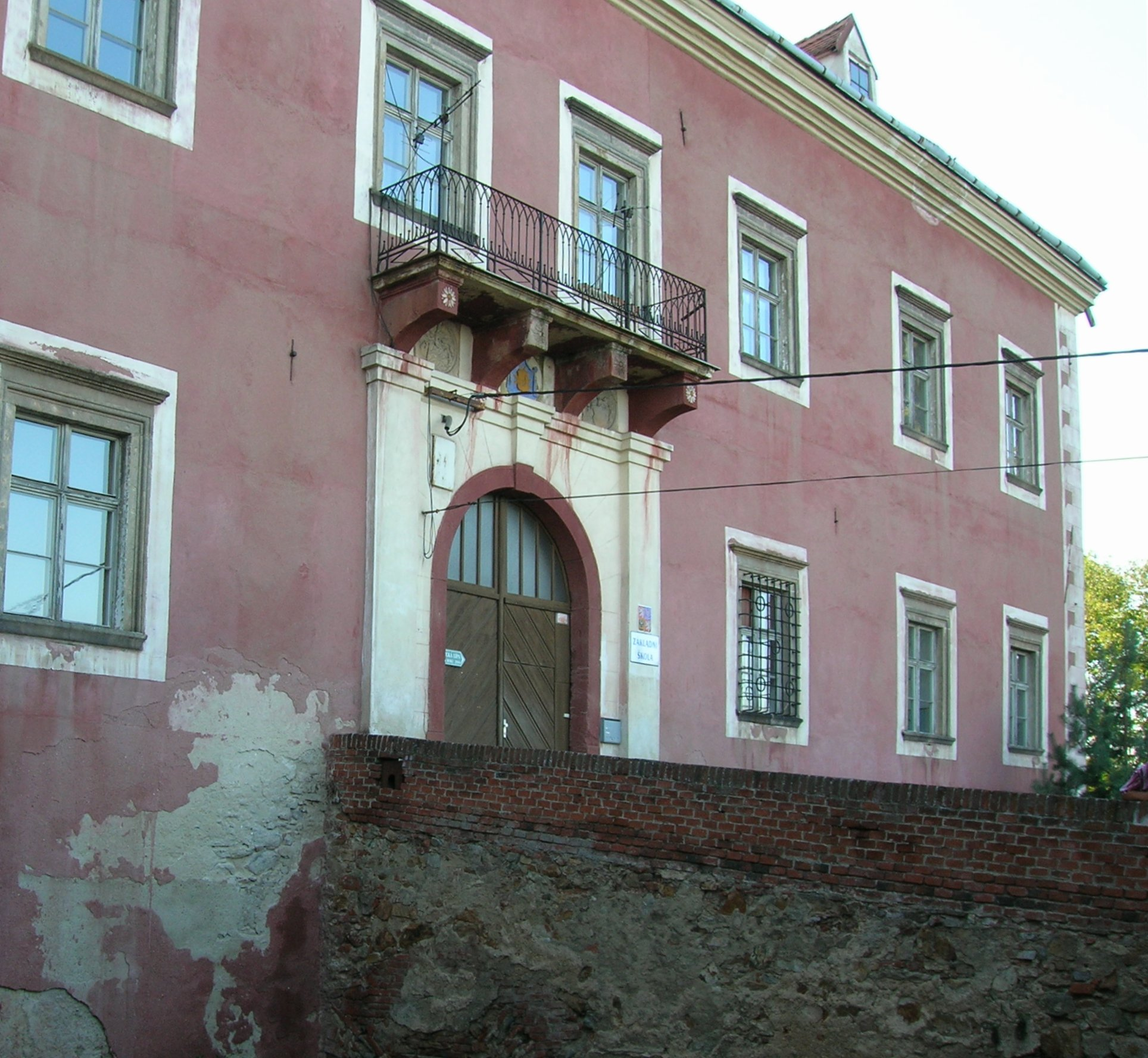 Čáslavice. Sádek Castle. Entrance door